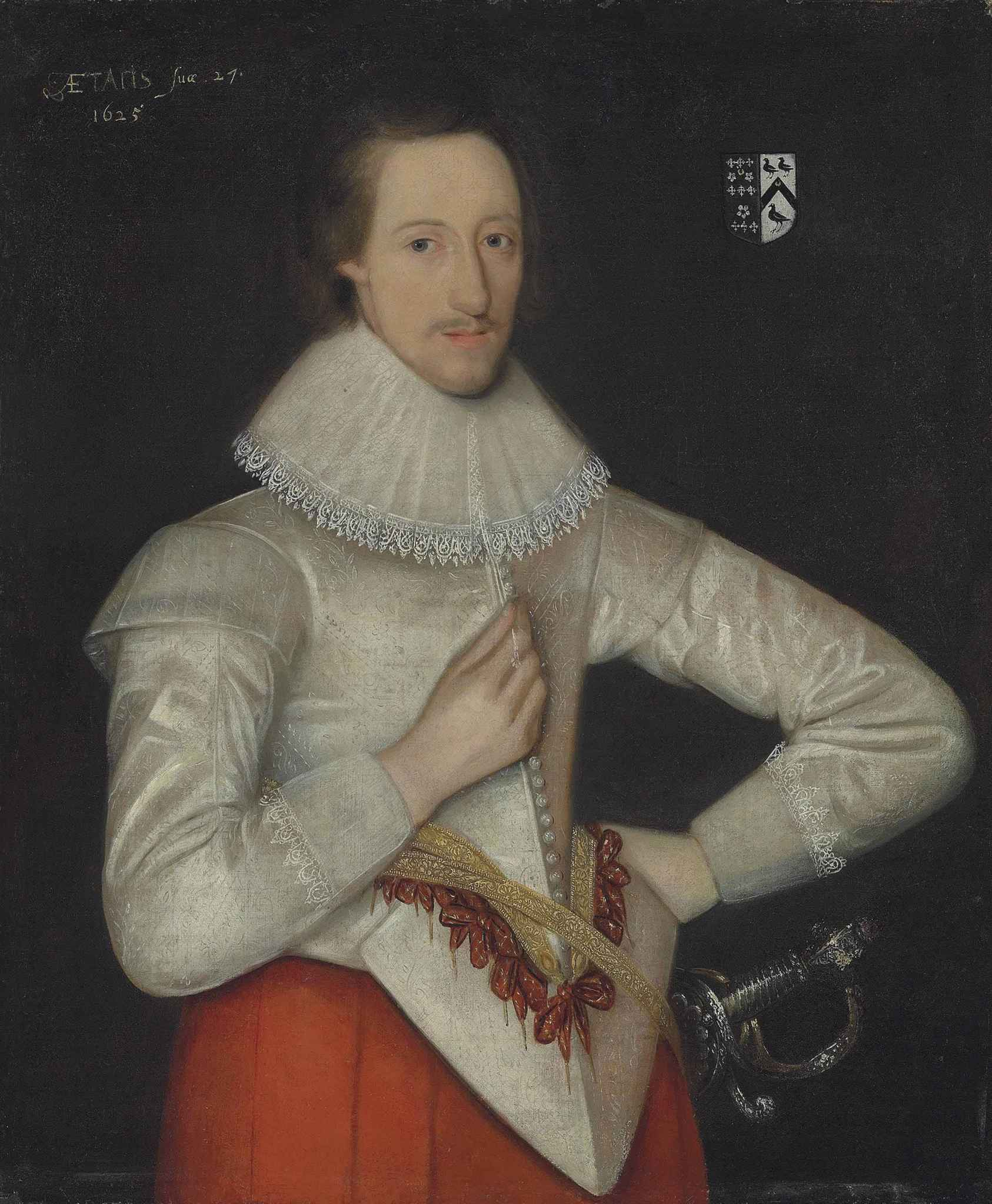 Portrait of Conyers Darcy, 1st Earl of Holderness (1599-1689) in 1625, aged 27